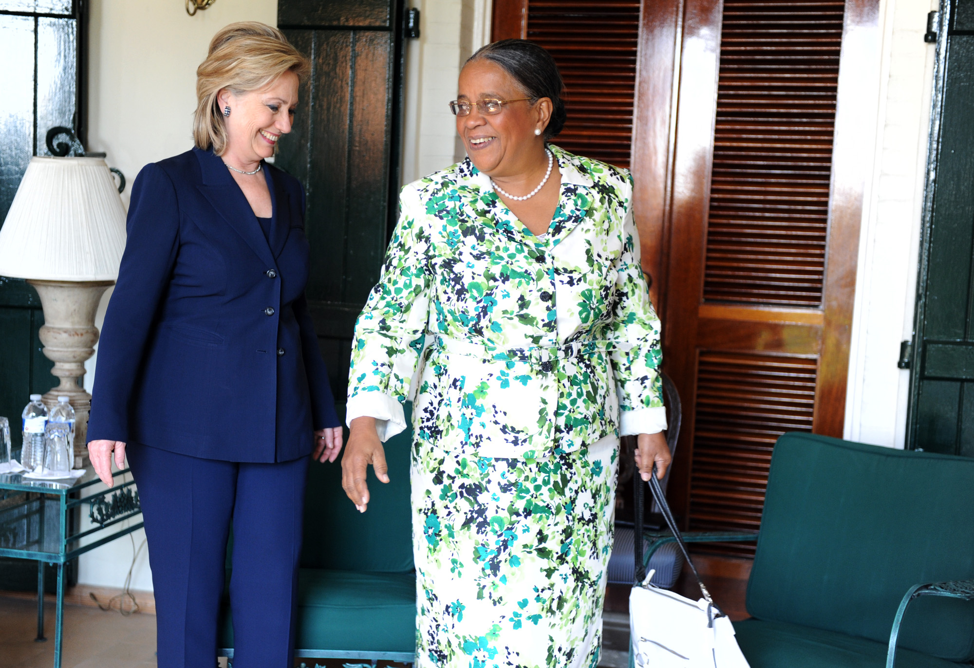 U.S. Secretary of State Hillary Clinton meets with Haitian Presidential Candidate Mirlande Manigat on January 30, 2011, in Port-au-Prince, Haiti. [Kendra Helmer/USAID]